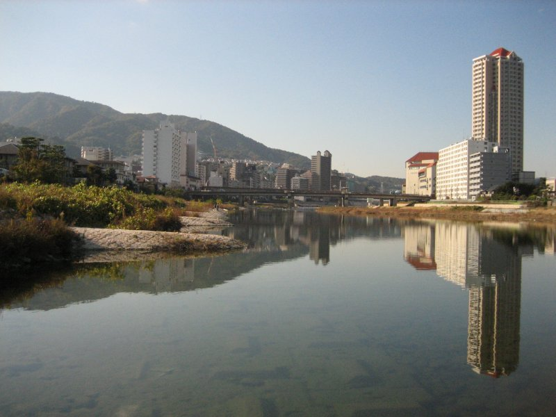 View of Takarazuka City, Japan, over the Mukogawa (Muko River). On the right side of the river you can see the Takarazuka Grand Theater, home of the famous Takarazuka Revue